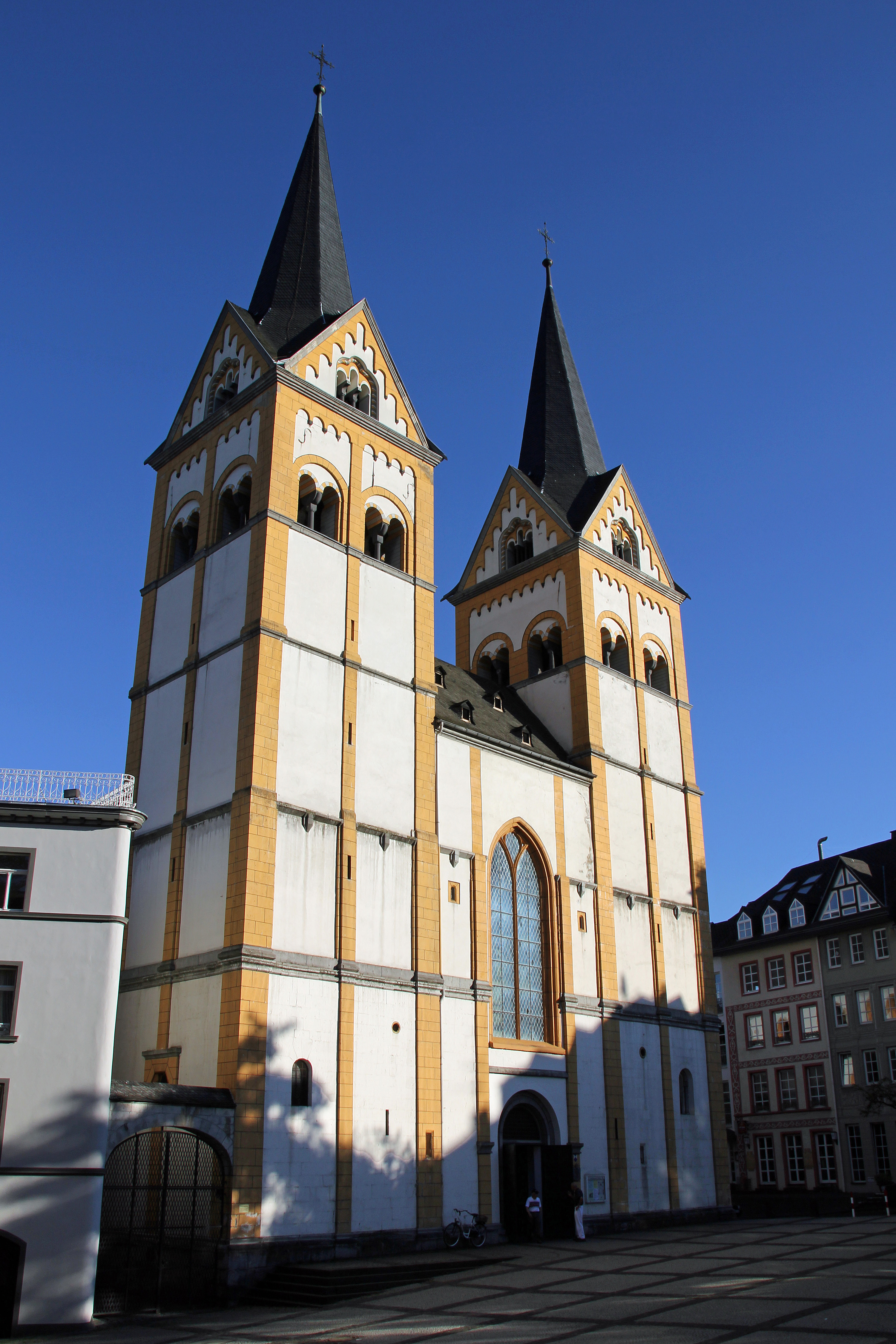 St. Florin Church in Koblenz